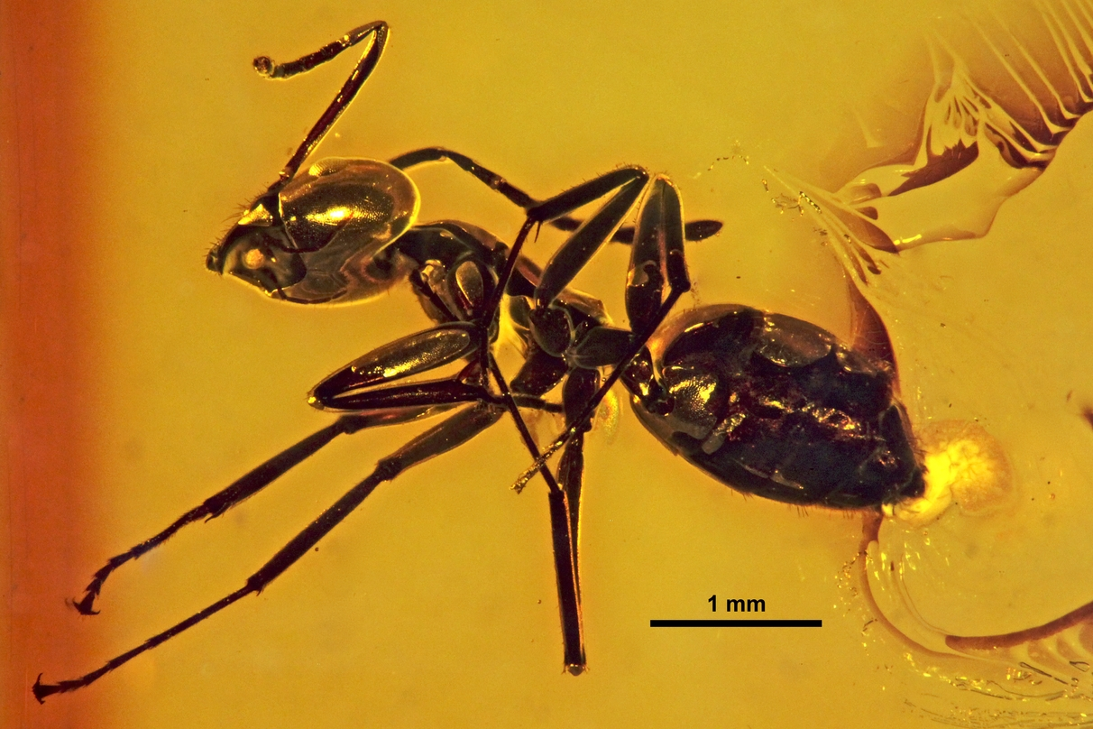 Profile view of Yantaromyrmex geinitzi' specimen MBI2289